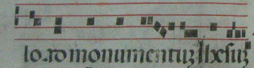 short photograph extract on how religious music was written in Europe in the XIVth century, with 4 lines but no rythm bar.